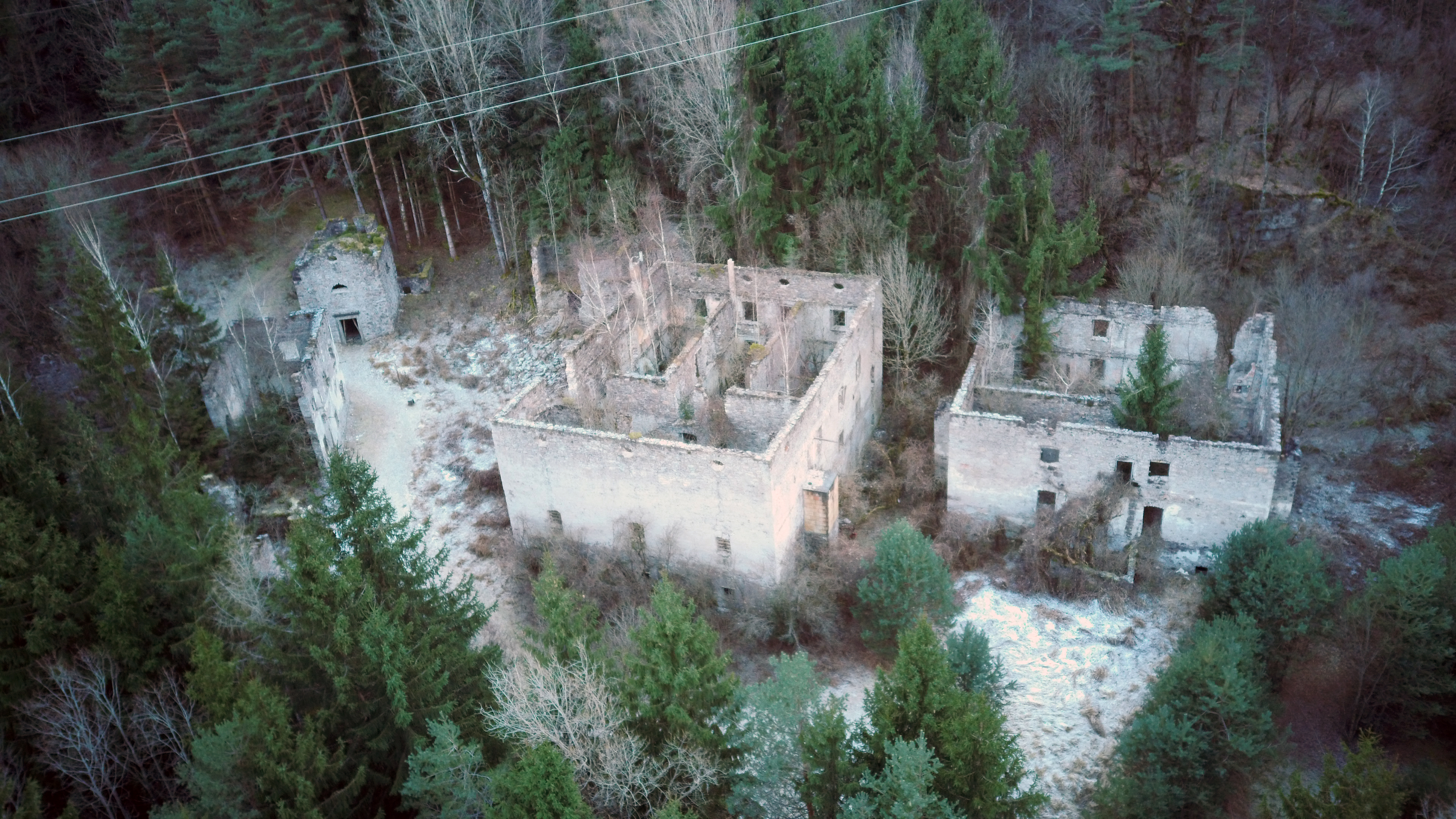 Some of the ruins of Ischiazza (Valfloriana, Trentino, Italy) as seen by drone; several other buildings lie unseen between the trees on the left